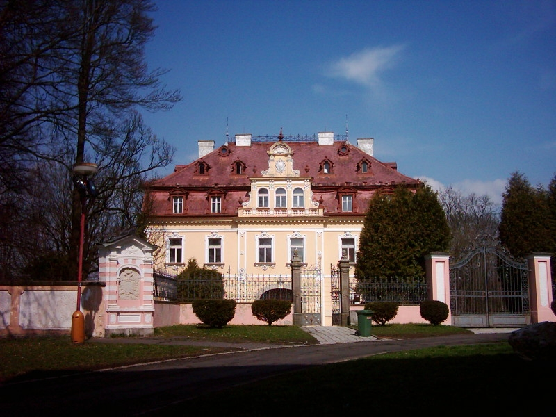 Aš, Museum